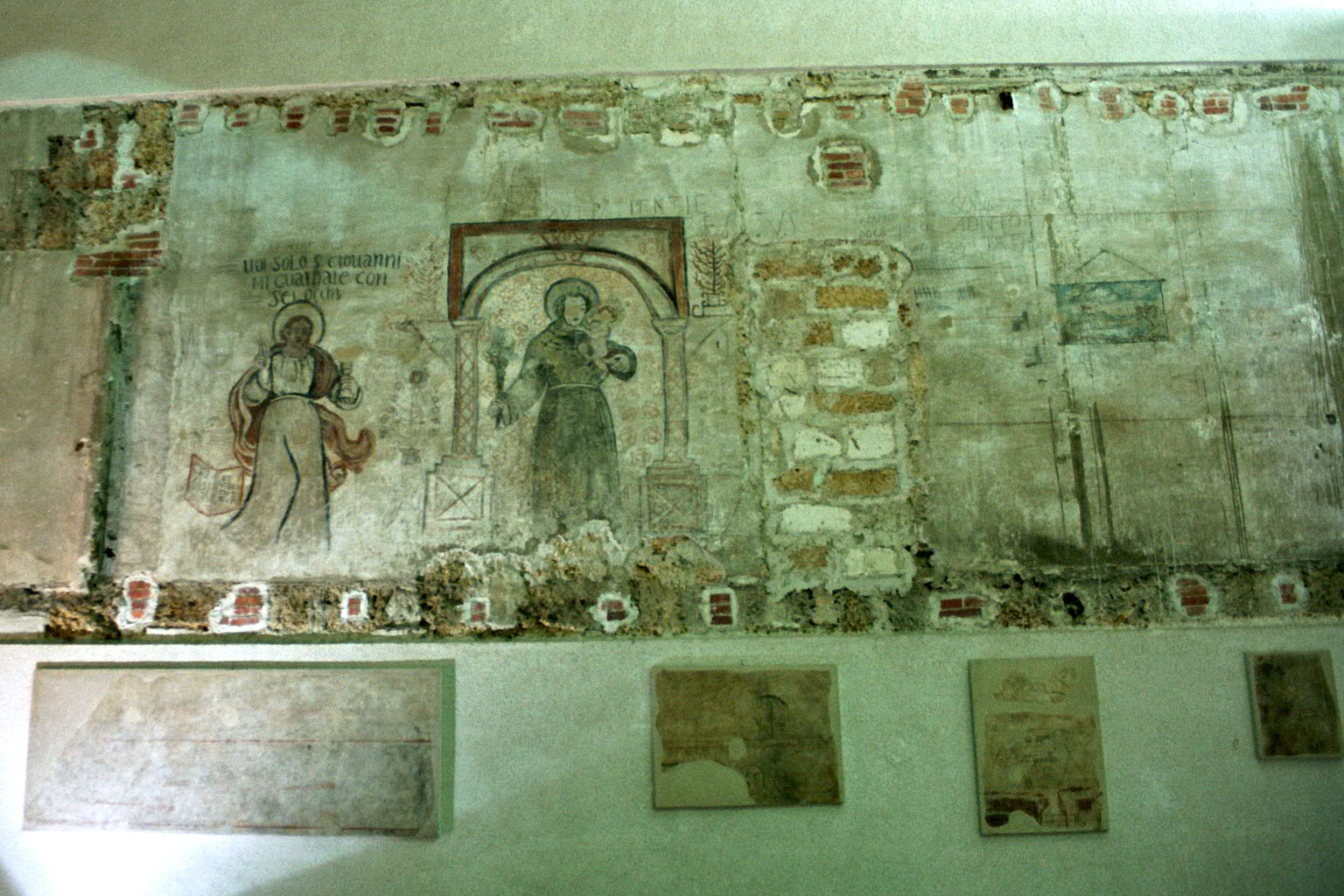 Palazzo Chiaramonte, Palermo Graffiti on the wall of the audience hall